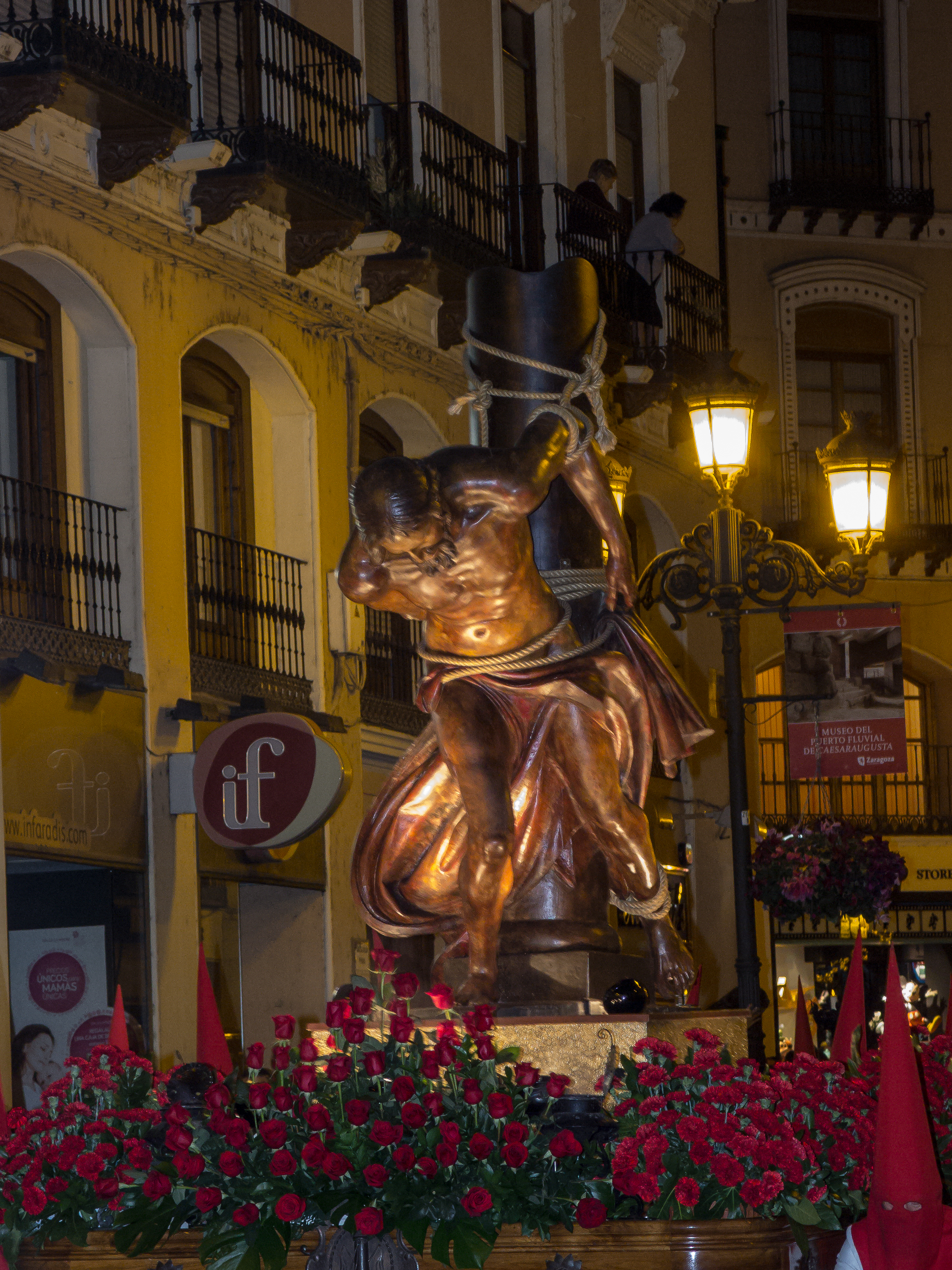 OLYMPUS DIGITAL CAMERA This is a photography of a Folklore festival in Spain (Wikidata id Q9075892).